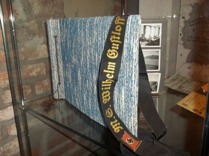 Prussian Museum NRW Wesel - Exhibition: "Signs of Life, years after World War 2 and the Fifties (Abresch collection). Photo Album with cap tally of the Wilhelm Gustloff